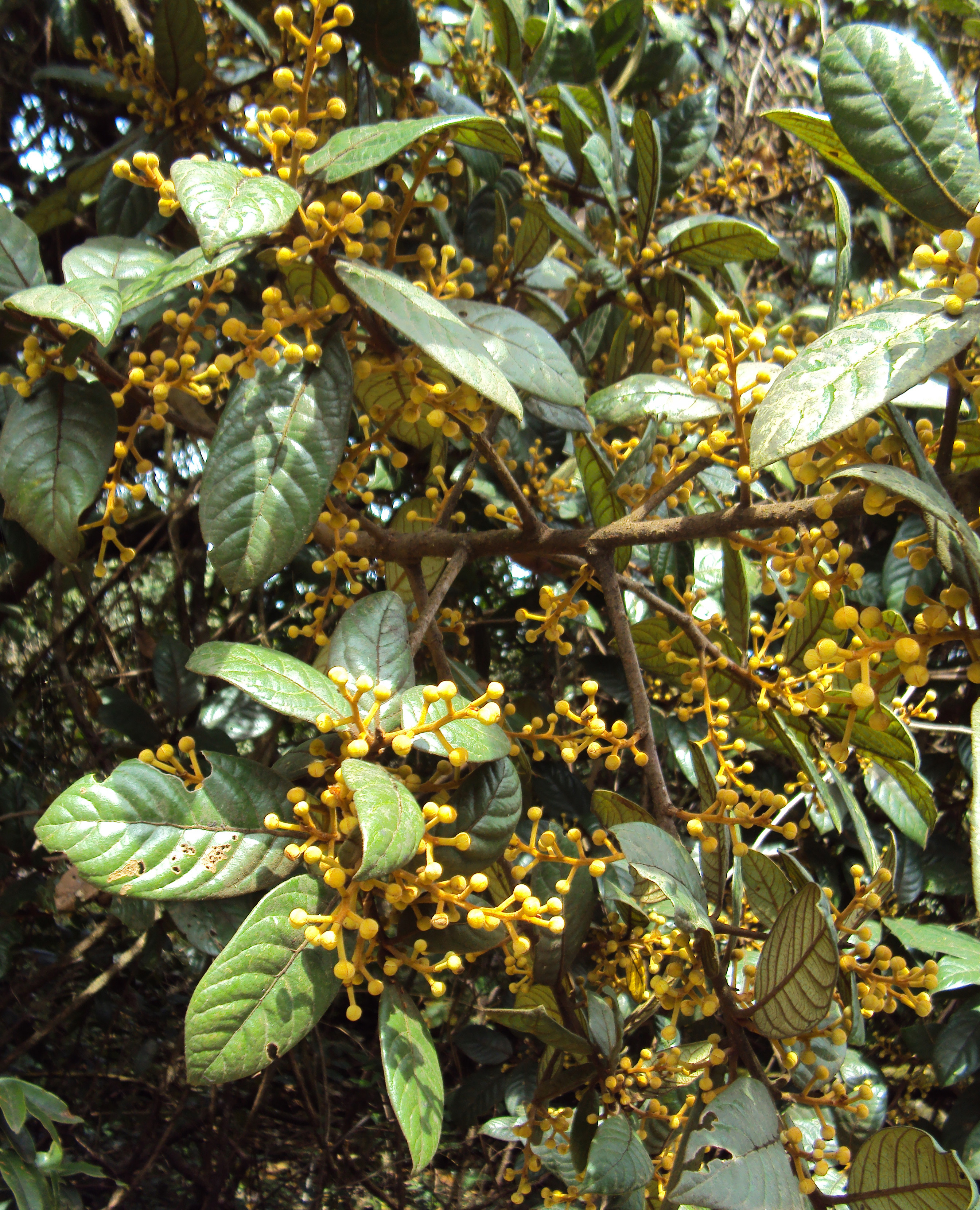 Litsea wightiana